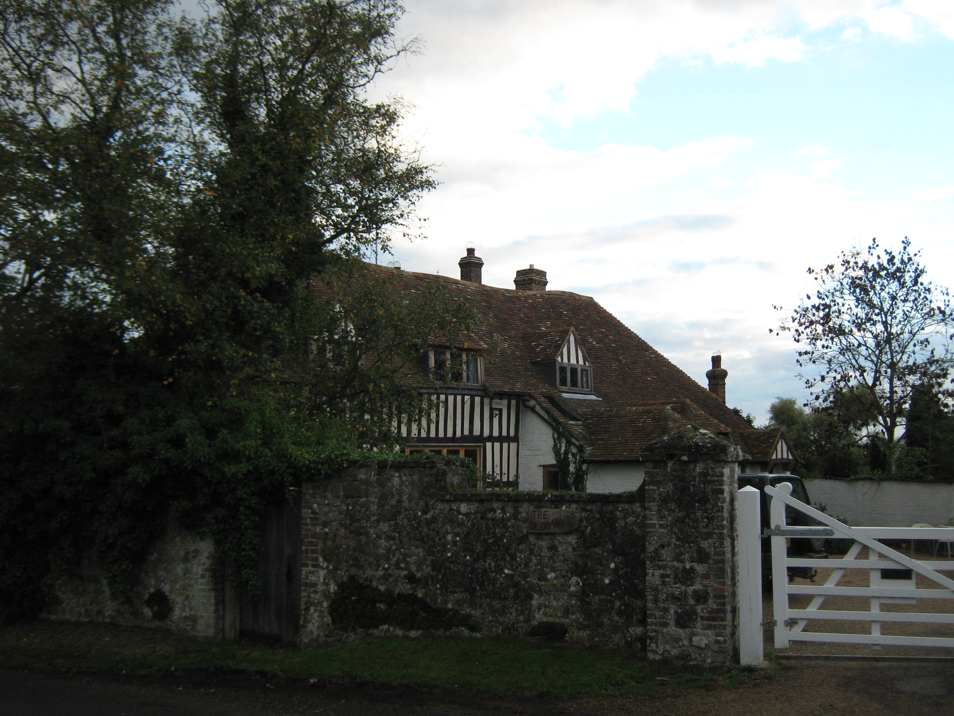 The Old House, Goldenhurst, Kent. Part, with Goldenhurst Manor, of the original Goldenhurst Farm, Noel Coward's country home in Kent from 1926-1956